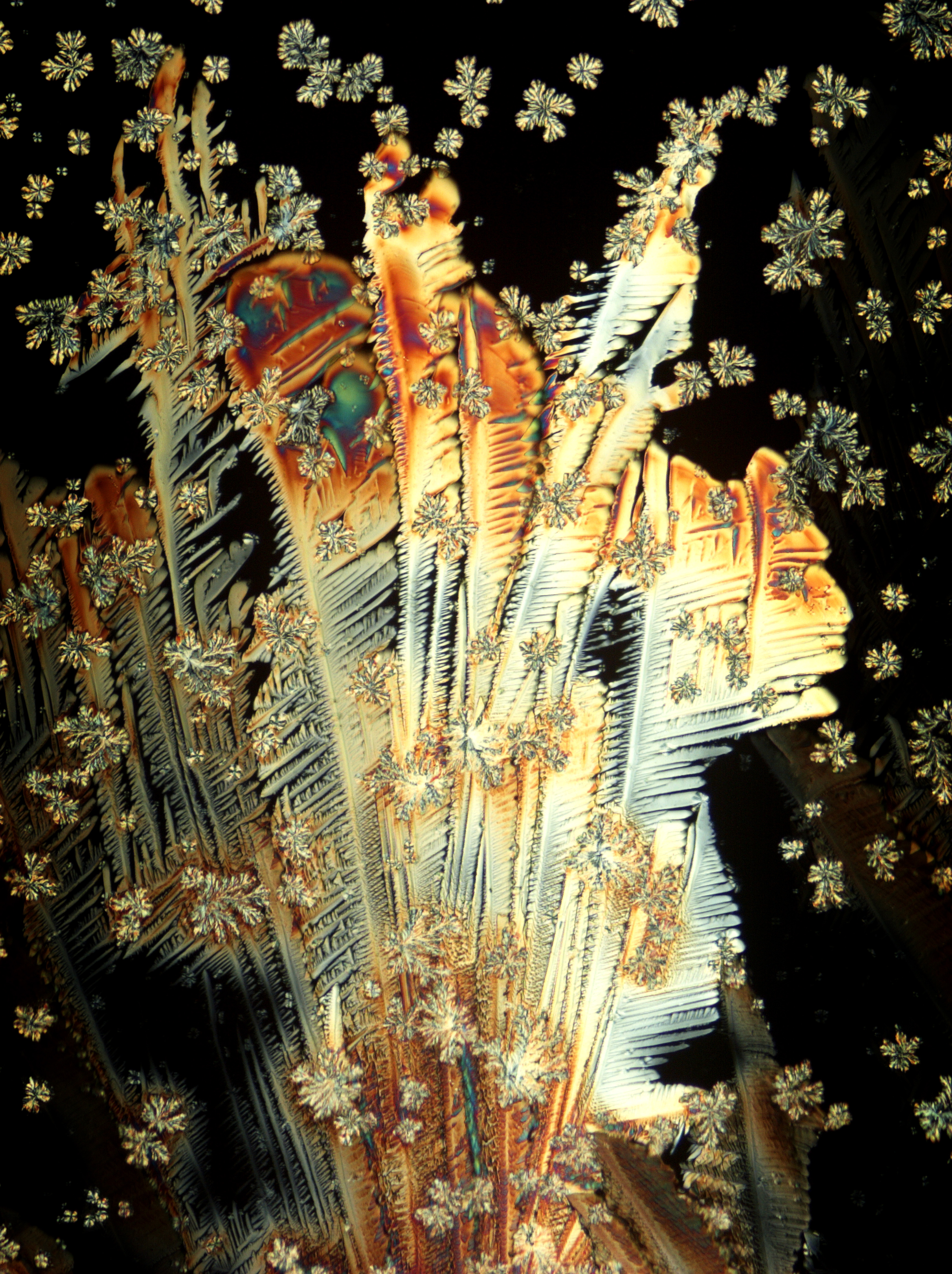 Crystals of vitamin C in a polarizing microscope (250x magnification in A3)